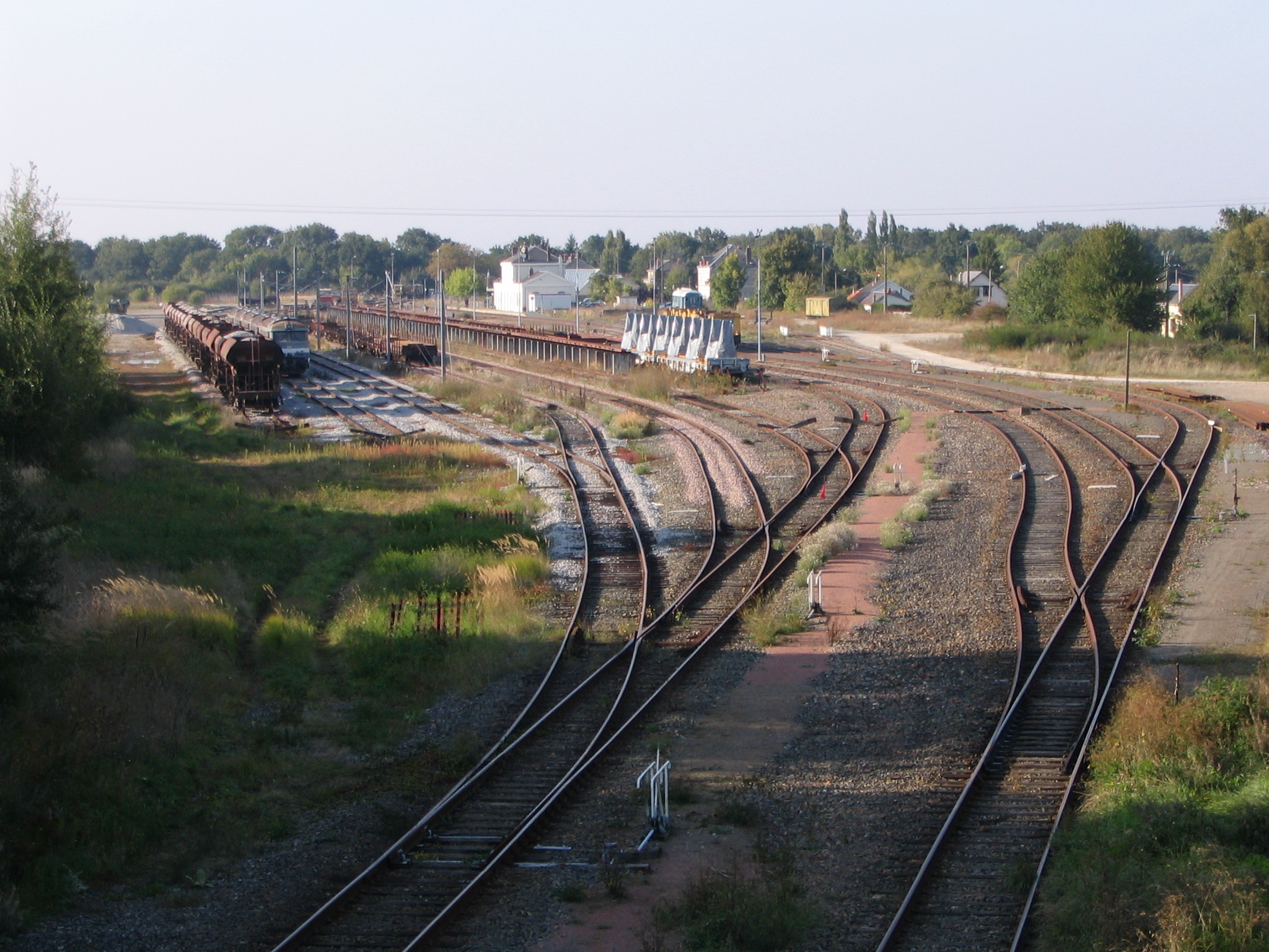 The railway station of Courtalain, Eure-et-Loir, France. Trains don't go any further nowadays.